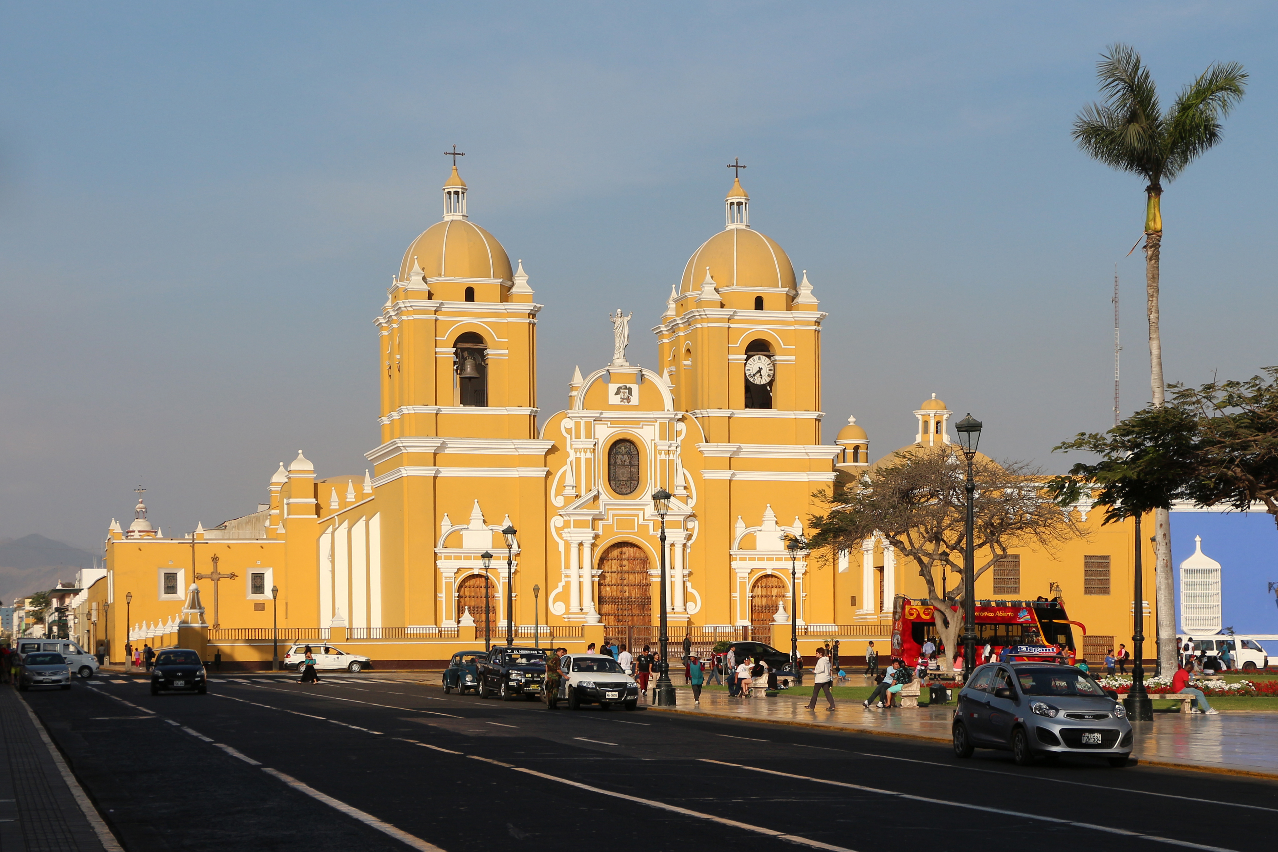 Cathedral of Trujillo, Peru